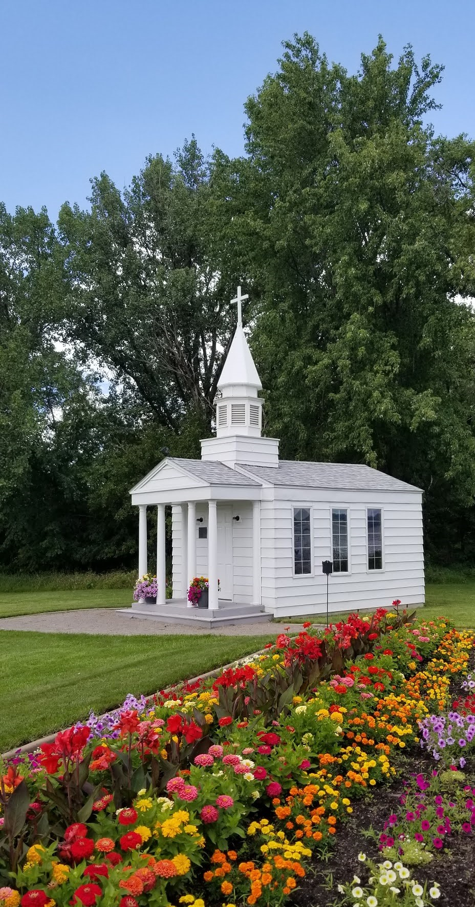 Small one-room chapel which mimics the shape of a larger church, with a columned portico and a steeple. Chapel is located in Morning Glory Gardens, along the shore of Lake Minnewaska, in Long Beach, Minnesota. The space is landscaped with flowers, and sometimes rented for weddings, family reunions, or other events.